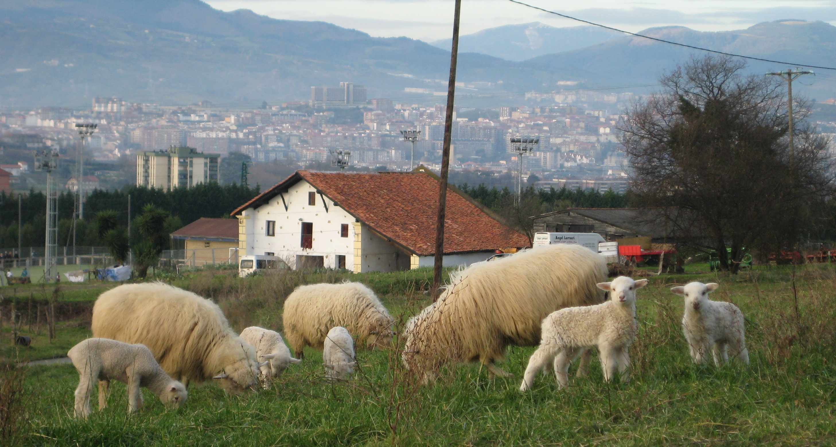 Sheep before a farm (Ubedena or Etxetxikerra?) in Sarriena, Leioa (with Santurce-Santurtzi at the background), Biscay.